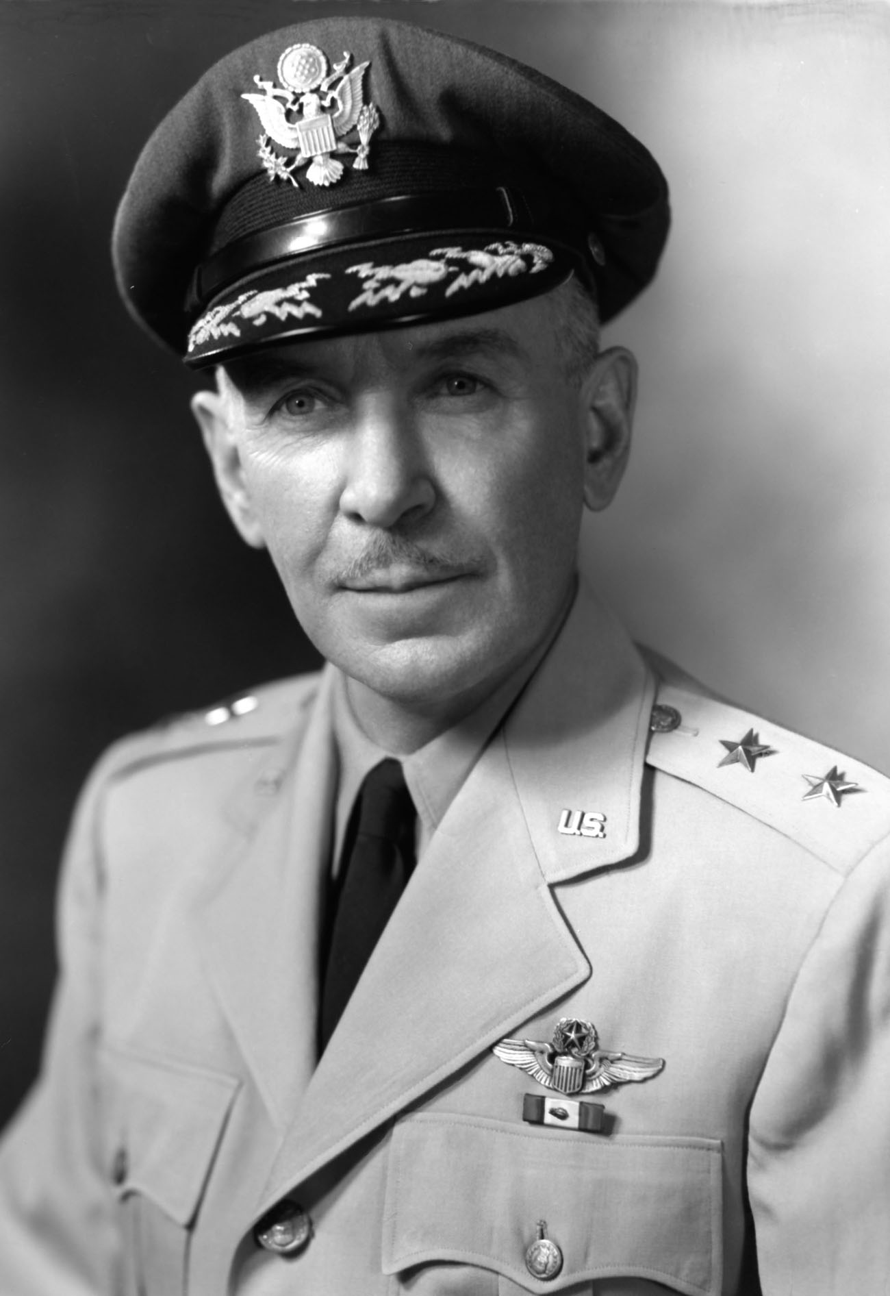 United States Air Force portrait of Major General Harold M. McClelland.